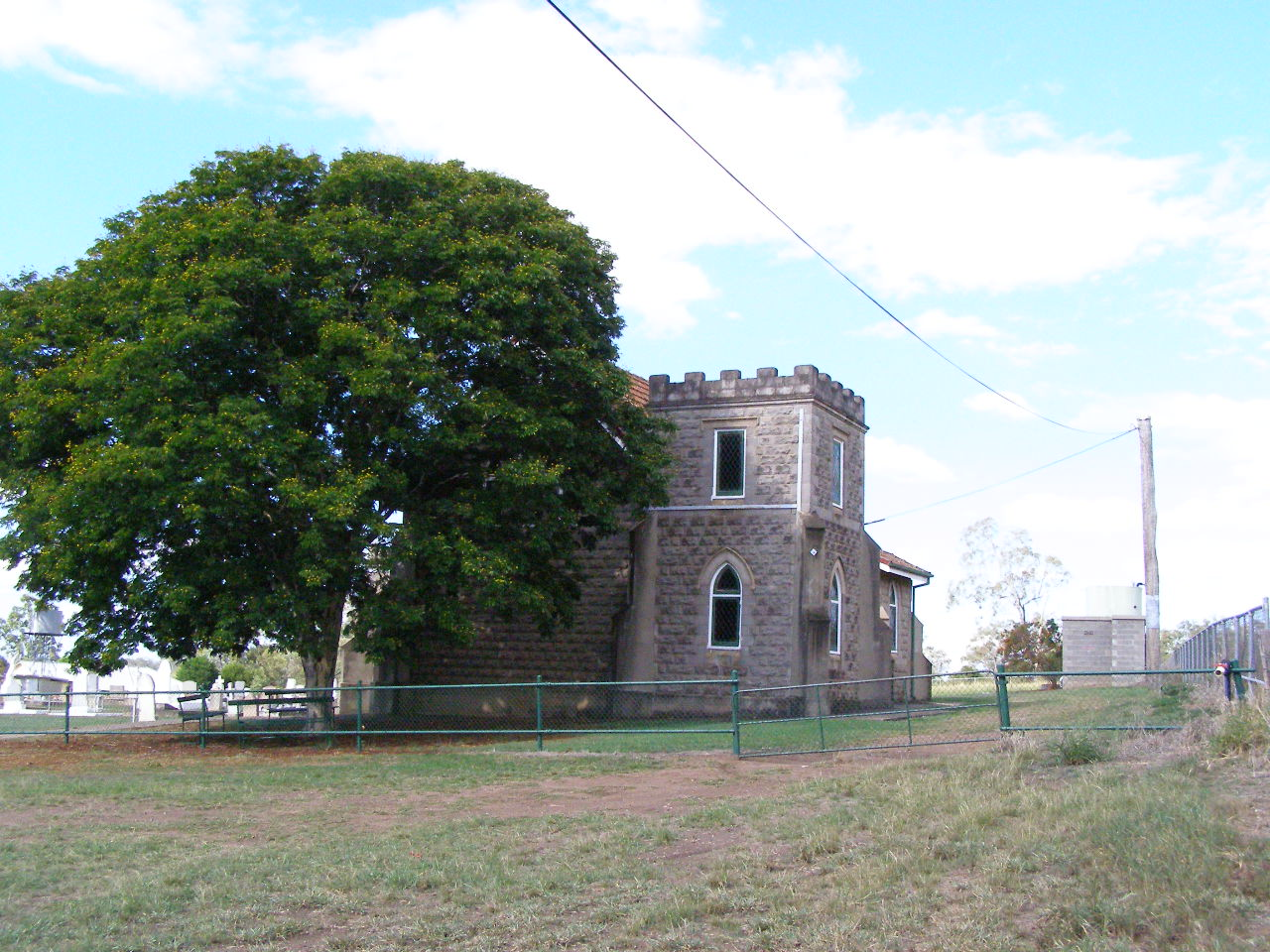 Ma Ma Creek Church front view, 2006